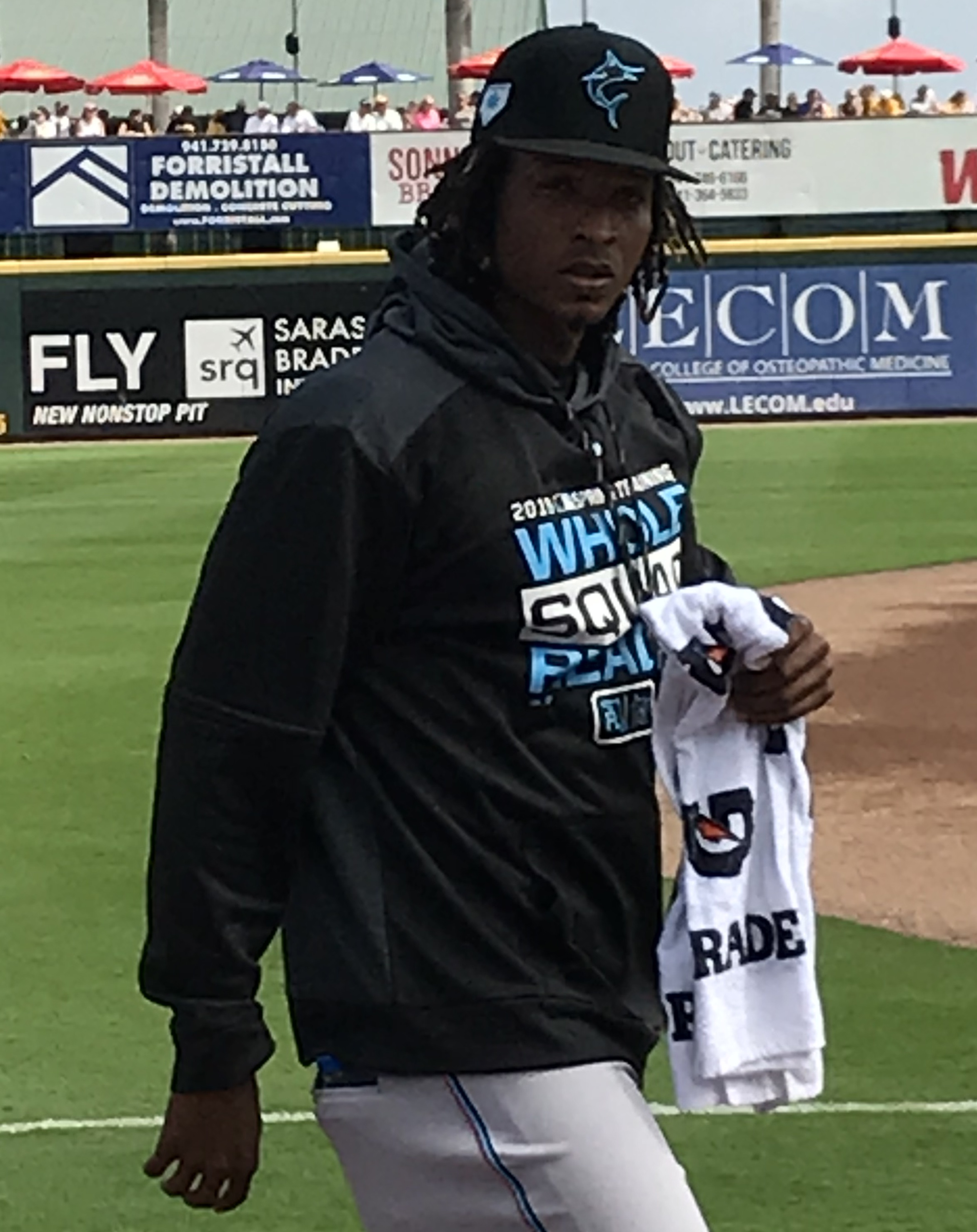 Jose Urena at spring training